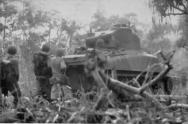 Tanks and men are heading for the Cape Gloucester airdrome. The tanks protected the infantry and the infantry protected the tanks as the 1st Marines kept the airdrome drive going